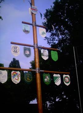 This is the "Maibaum" in Vorhelm in Germany